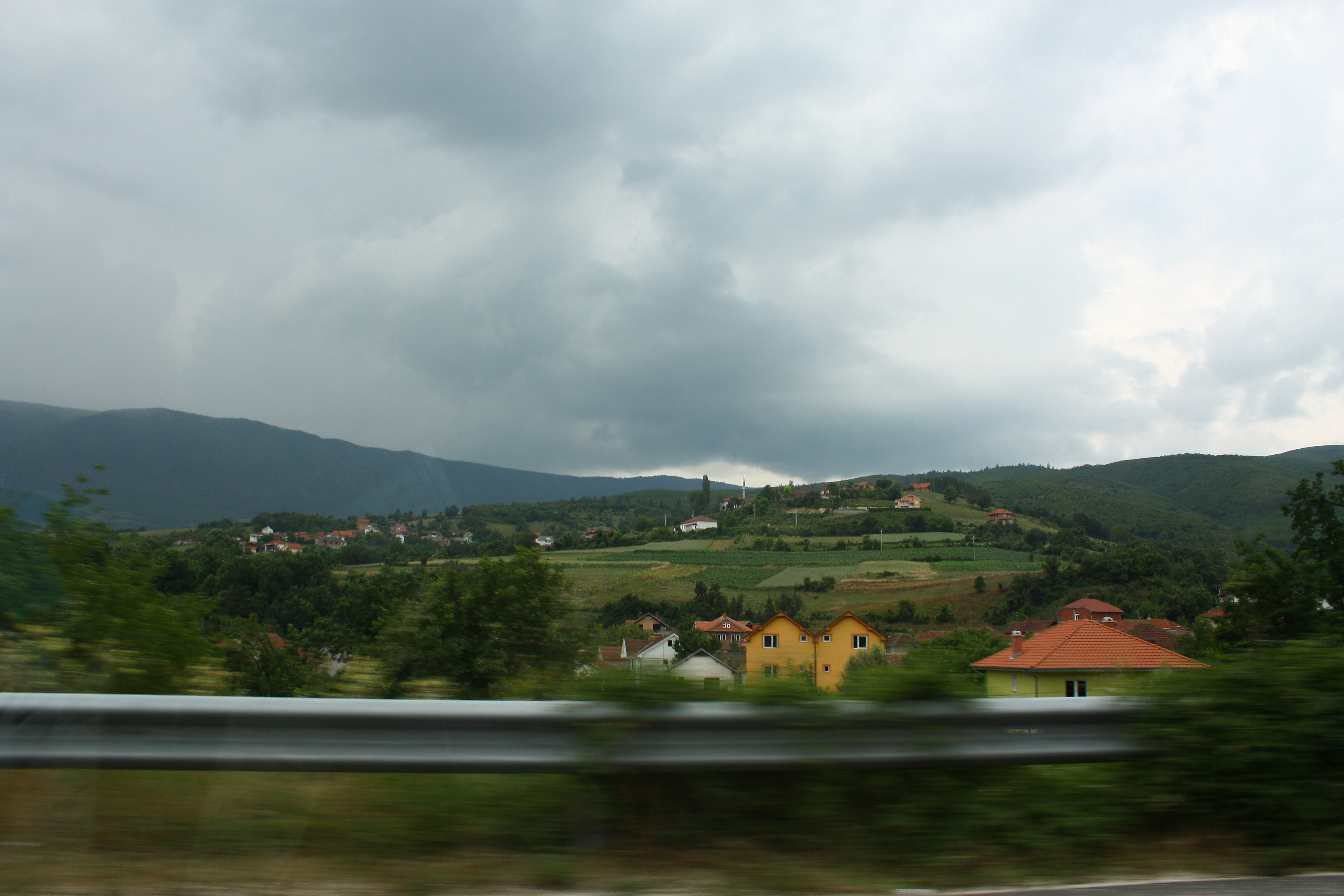 Laskarci, Macedonia